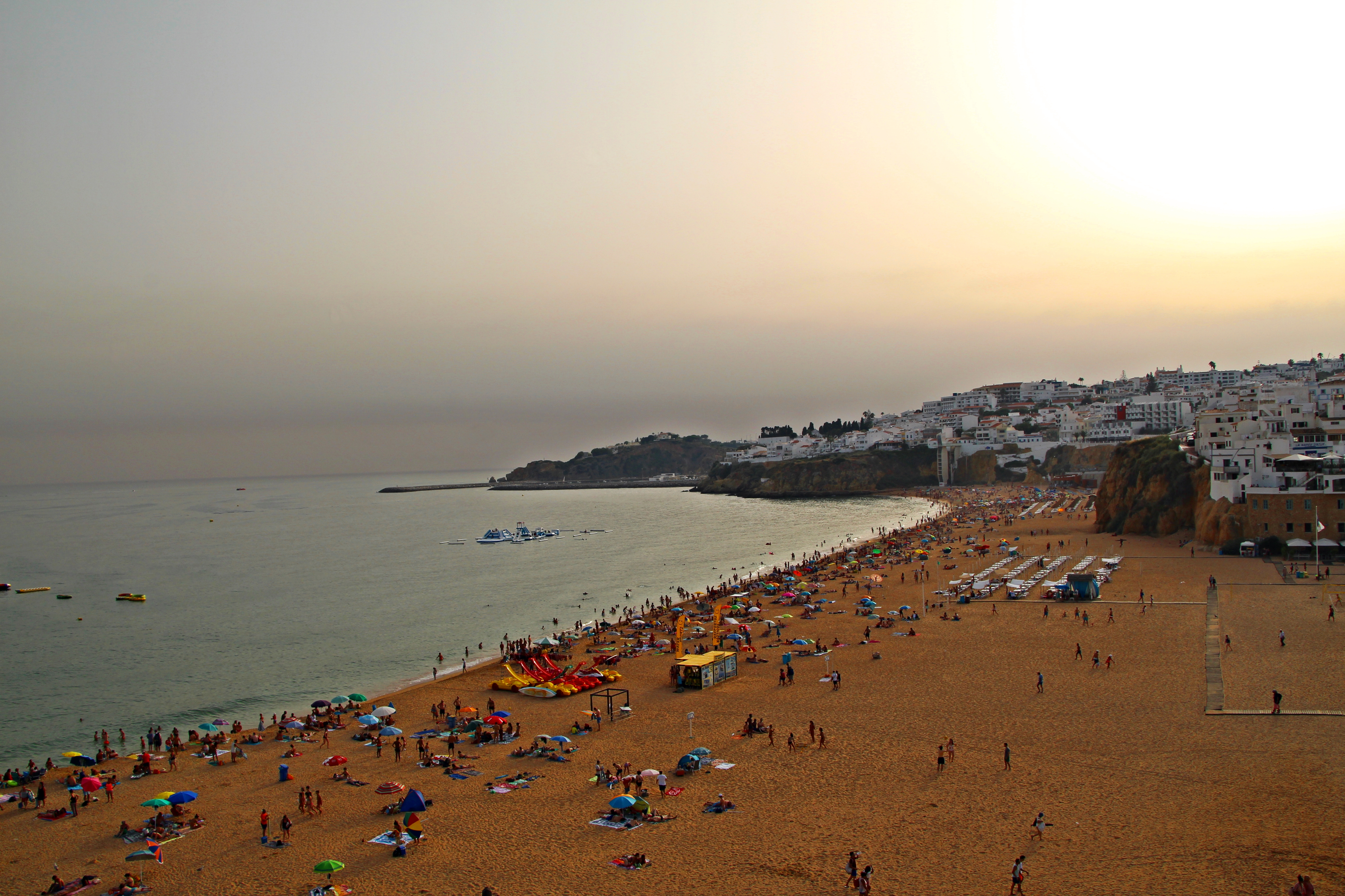 Looking west across the Praia dos Pescadores within the city of Albufeira, Algarve, Portugal.